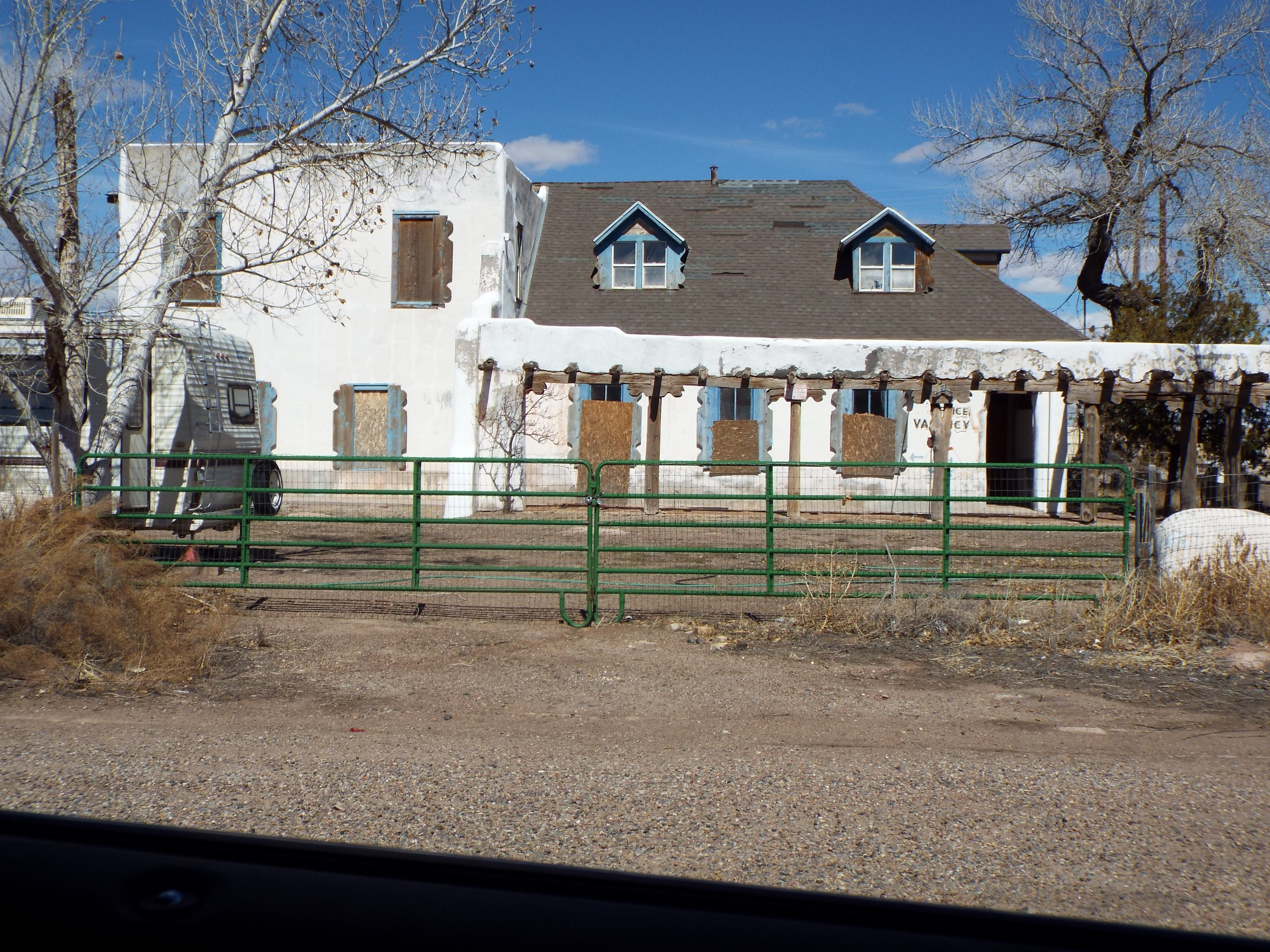 Arizona Rancho Inn located at Jct. of Tovar and Apache Sts., Holbrook, Arizona 1881 The Arizona Rancho, also known as the Higgins House, Brunswick Hotel and Arizona Hotel, is a former hotel in Holbrook, Arizona. It was originally built between 1881 and 1883 as a residence, the expanded as a boarding house, a hotel, and finally as a motel. The original structure is thought to be the oldest extant structure in Holbrook. It was listed in the National Register of Historic Places on May 14, 2013, ref. # 97001210.